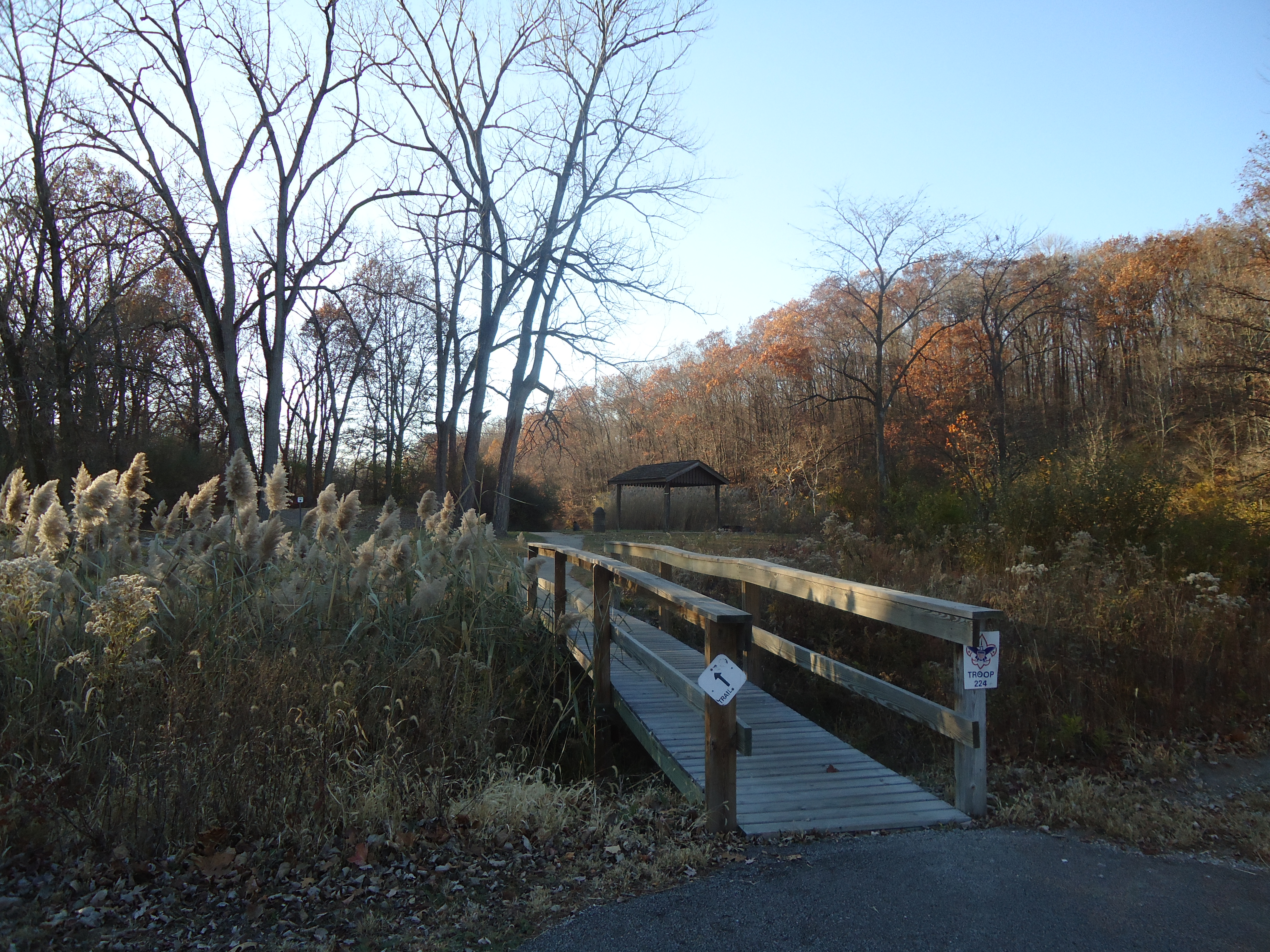 This is a picture of a trail near High Pond in Kickapoo State Park.